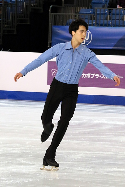 Photos – Junior World Championships 2016 – Men (Se Jong BYUN KOR – 29th Place)